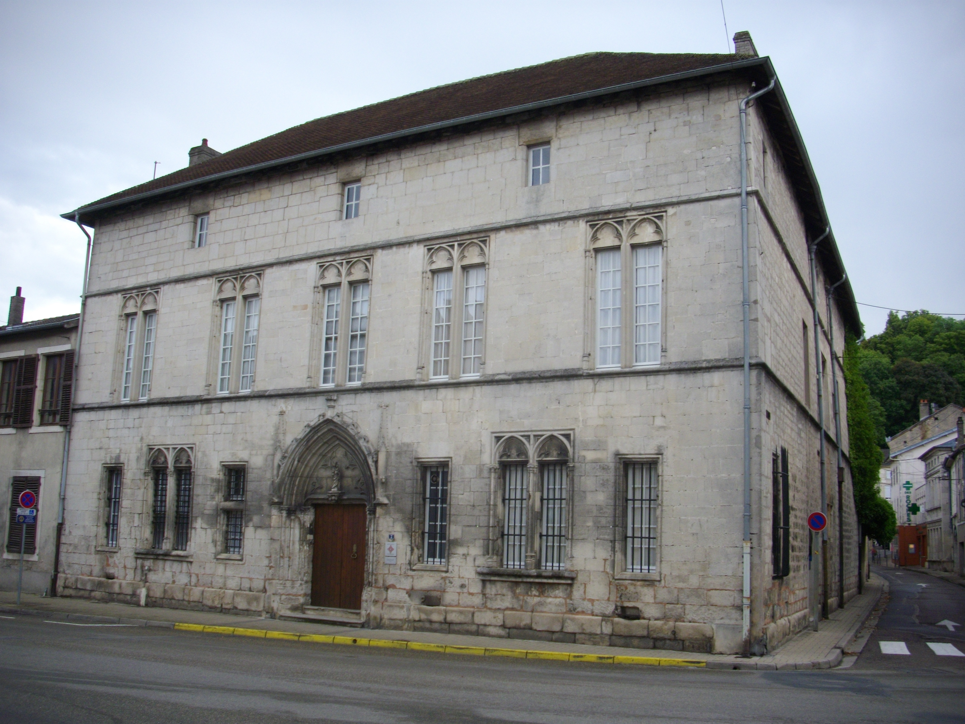 King's House in Saint-Mihiel (Meuse, France) .